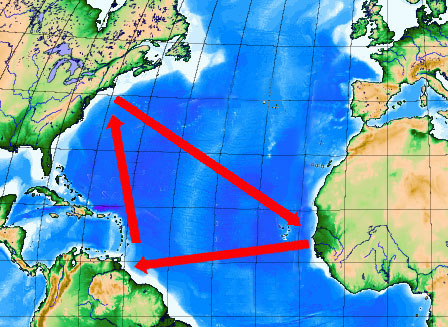 A wordless map of the Triangular Trade to be used as a template for other languages. All is needed are the correct captions by each arrow. Note: cotton was not part of the Triangular Trade. By the time cotton became a significant cash crop, slavery and the slave-trade had been outlawed by the European powers and was thus controlled by American shippers. Further, the rum was distilled in New England and the slaves were brought mainly to Brazil. Before cotton was "king" in North America, slavery was disappearing whereas it was growing in South America. North American destinations and Brazil were separated by some 5000 miles. They were by no means a single corner of the Triangular Trade. Thus to add Europe to the trade cycle would be a Quadrilateral Trade -- with one side curved around the bulge of Africa. The trade from Africa to the est Indies was gold, ivory, and people who were on their way to becoming slaves.